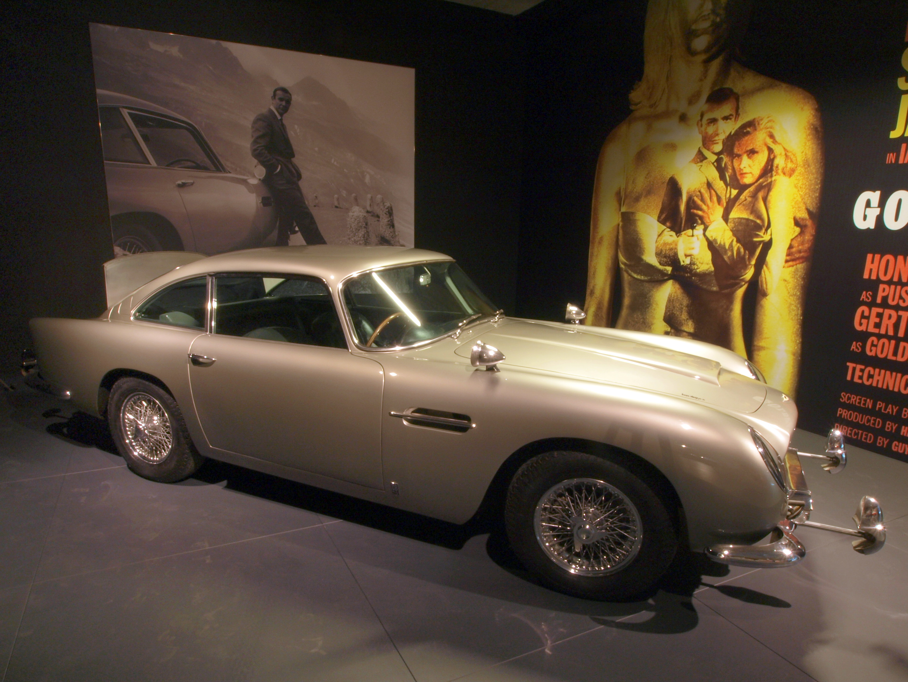 Photographed at the Louwman museum / Louwman Collection, The Netherlands.